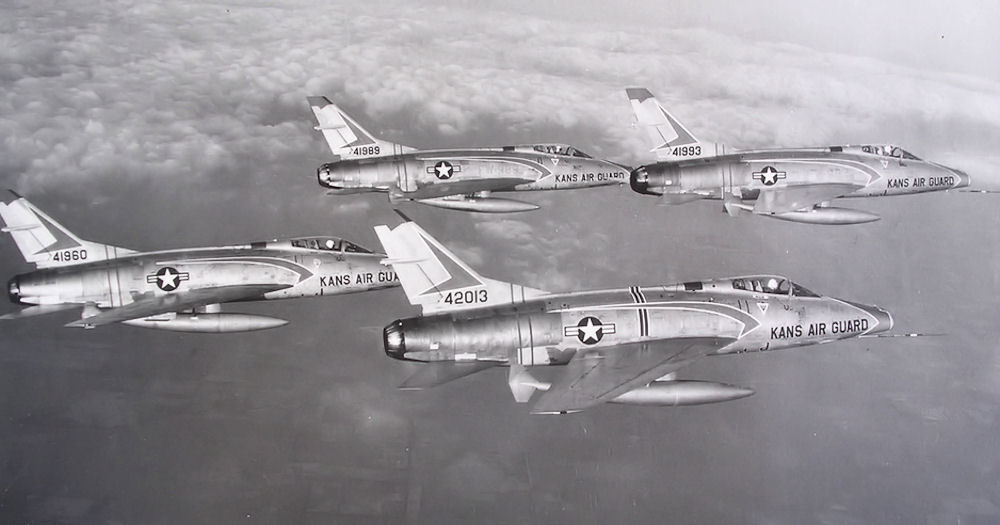 127th Tactical Fighter Squadron - 4 aircraft F-100C formation. Identified aircraft are North American F-100C-20-NA Super Sabre 54-1960, 54-2013, 54-1889 and 54-1993